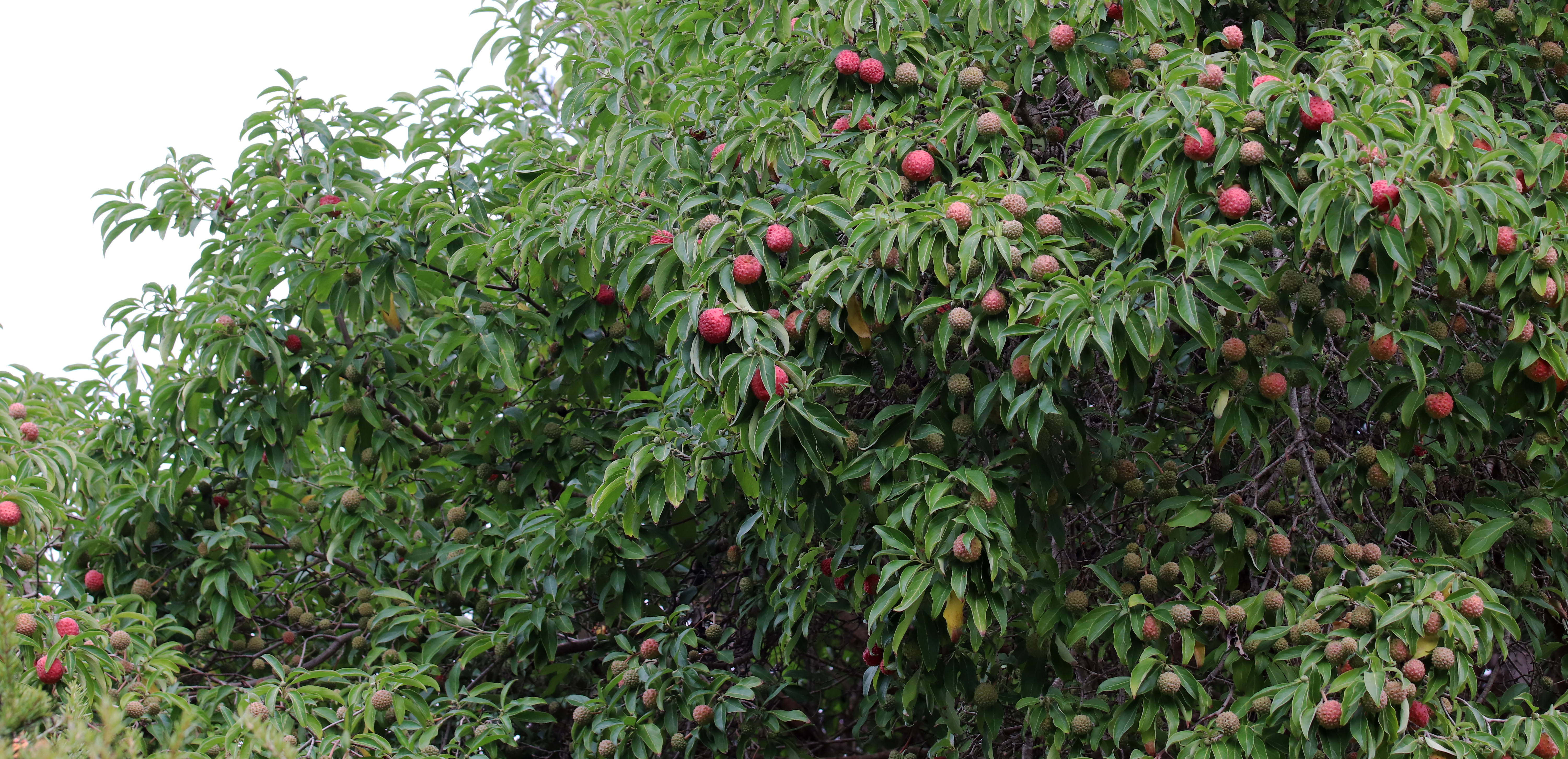 Cornus capitata at the Mendocino Coast Botanical Gardens, Fort Bragg, Ca. on October 19, 2018. Identified by sign.